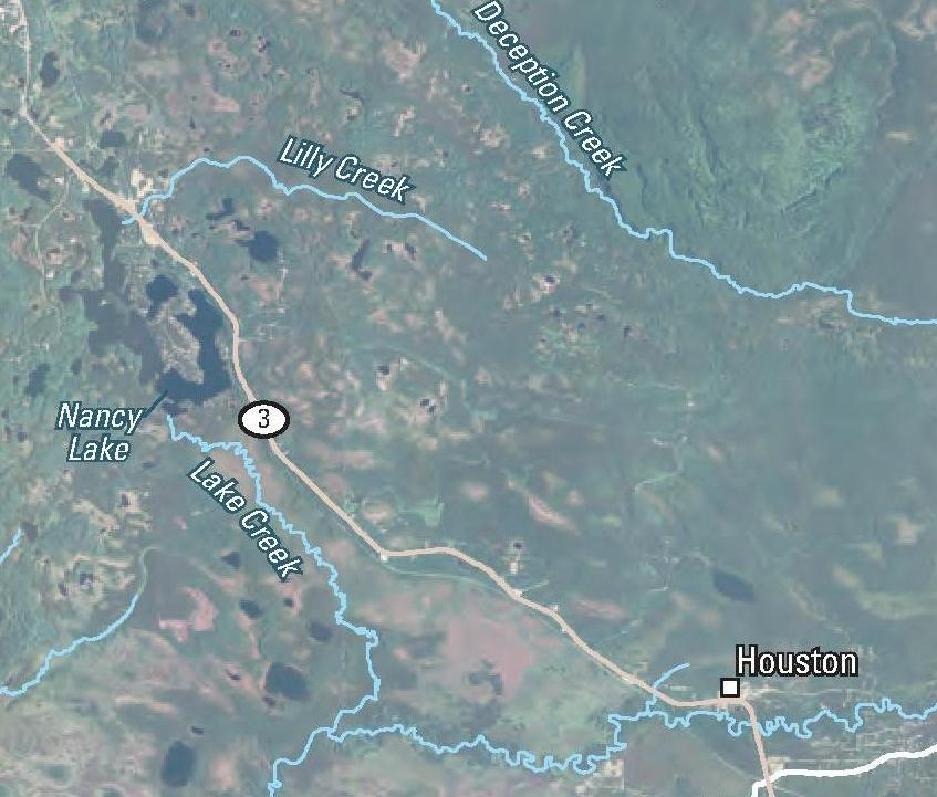 Baseline Channel Geometry and Aquatic Habitat Data for Selected Streams in the Matanuska-Susitna Valley, Alaska, USGS